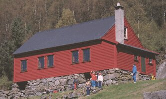 The tourist cabin in Longåsdalen in Vikebygd, Norway. Own picture.